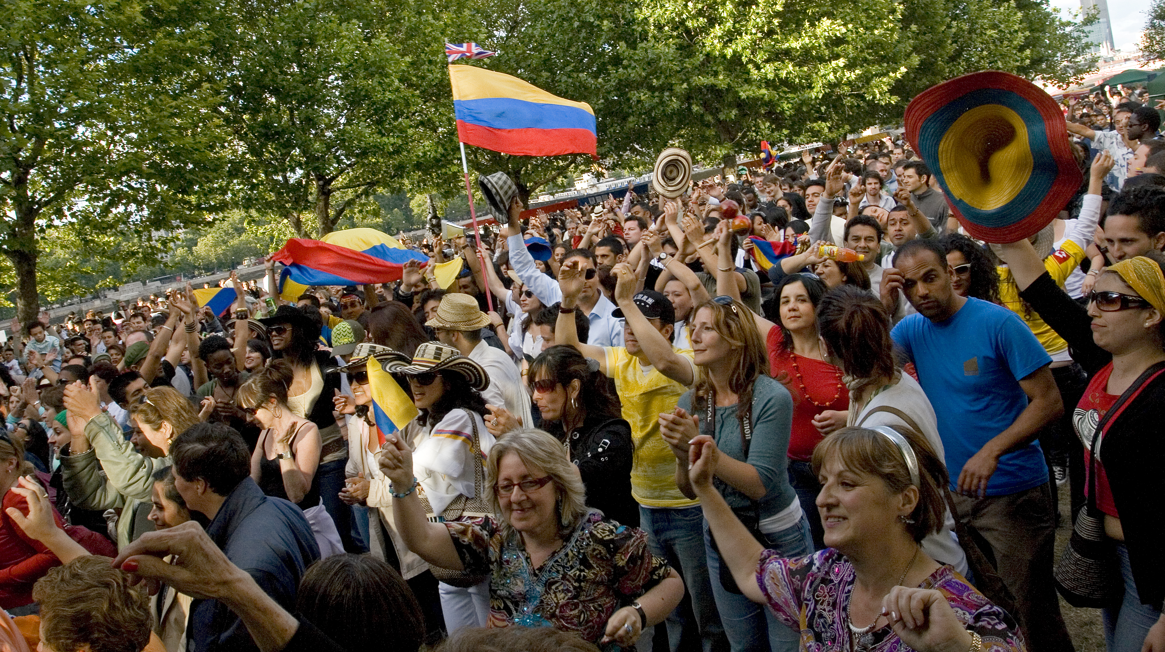 A photo of Colombians in the United Kingdom celebrating Colombian independence day